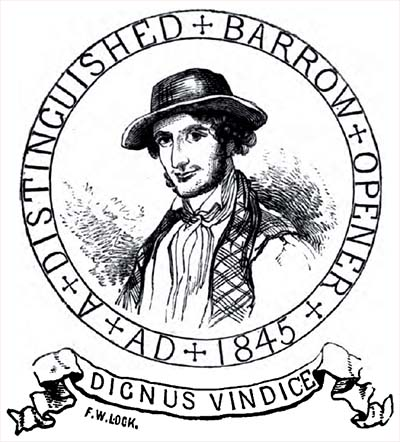 Circular Seal drawn in ink by F. W. Lock. Lock's self portrait surrounded by a ring inscribed "A Distinguished Barrow Opener, A. D. 1845, with a ribbon beneath inscribed "Dicnus Vindice" (Worthy Protector); artwork signed "F. W. Lock"